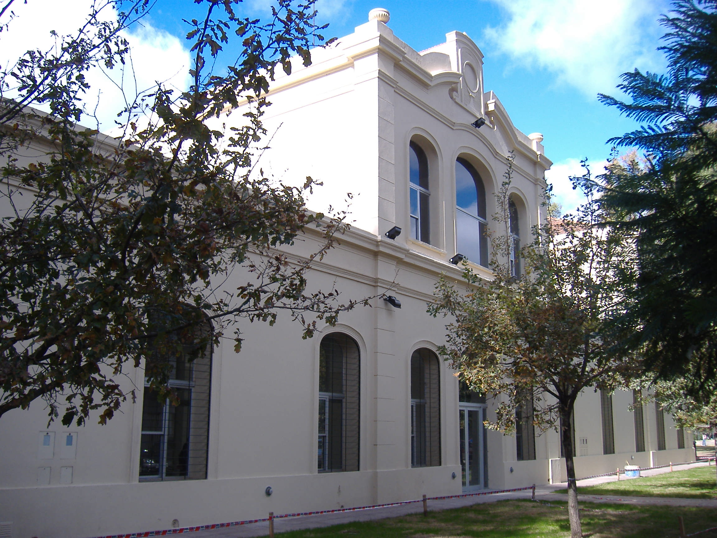 The abandoned, then restored, train station and terminus of the Ferrocarril Oeste Santafesino company, Rosario Oeste Santafesino Station, in Rosario, Argentina, located within the Parque Urquiza.